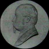 Medo Pucić, cropped image